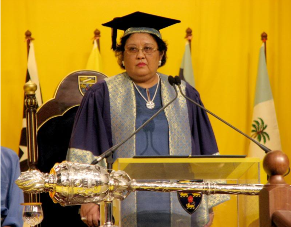 Tan Sri Datuk (Dr.) Rafiah Salim was appointed the ninth Vice-Chancellor of the University of Malaya on 8th May 2006.